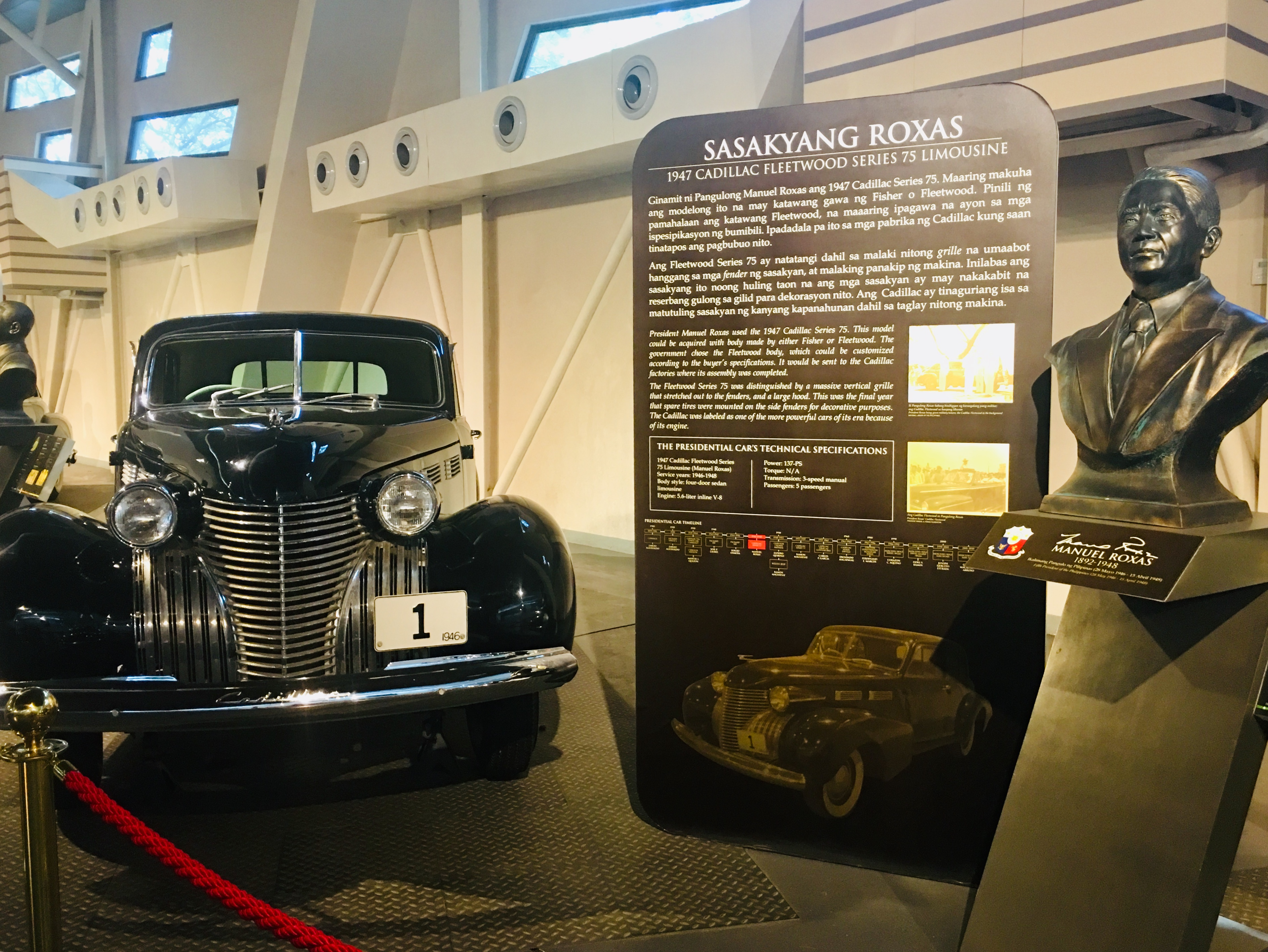 Presidential car of Manuel Roxas